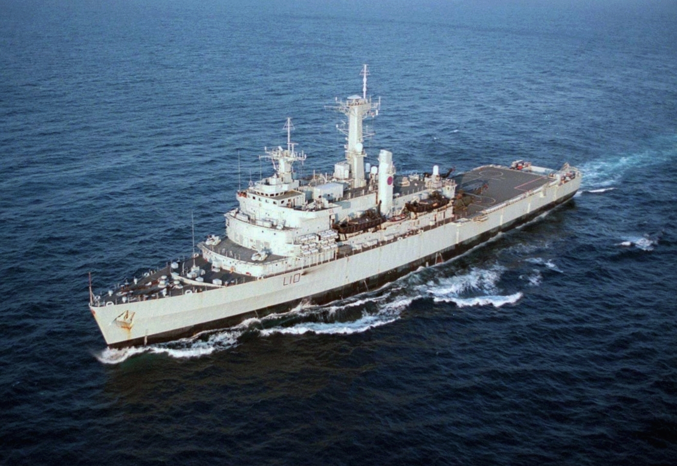 The Royal Navy lading ship dock HMS Fearless (L10) sailing off the coast of North Carolina (USA) during the "Combined Joint Training Field Exercise (CJTFEX) '96" on 9 May 1996.